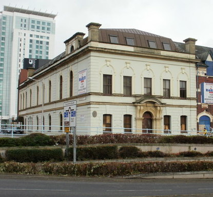 Cardiff : former Custom House and York Hotel